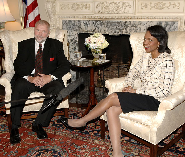 Secretary Rice with His Excellency Dimitrij Rupel, Minister of Foreign Affairs of the Republic of Slovenia.